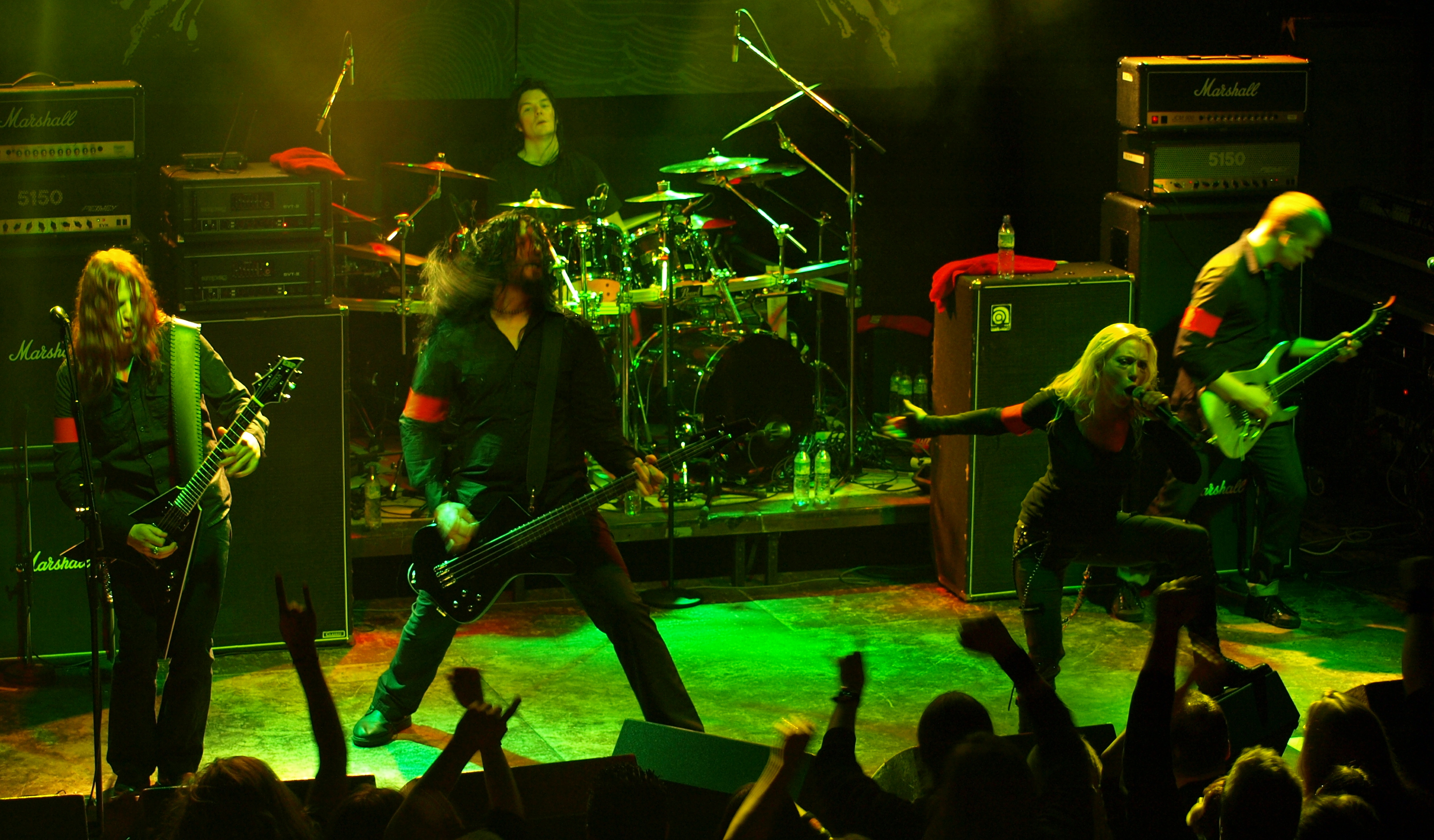 Swedish melodic death metal band Arch Enemy